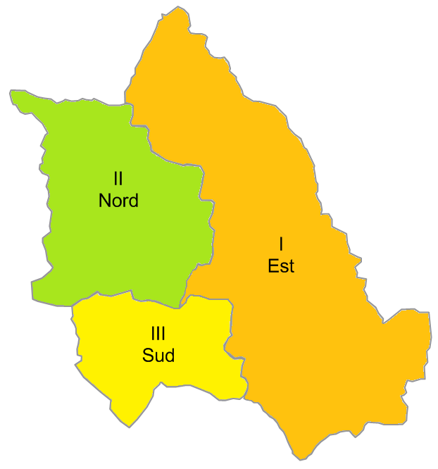 New plan of town administration district